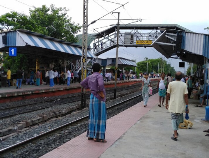 Narendrapur Railway Station